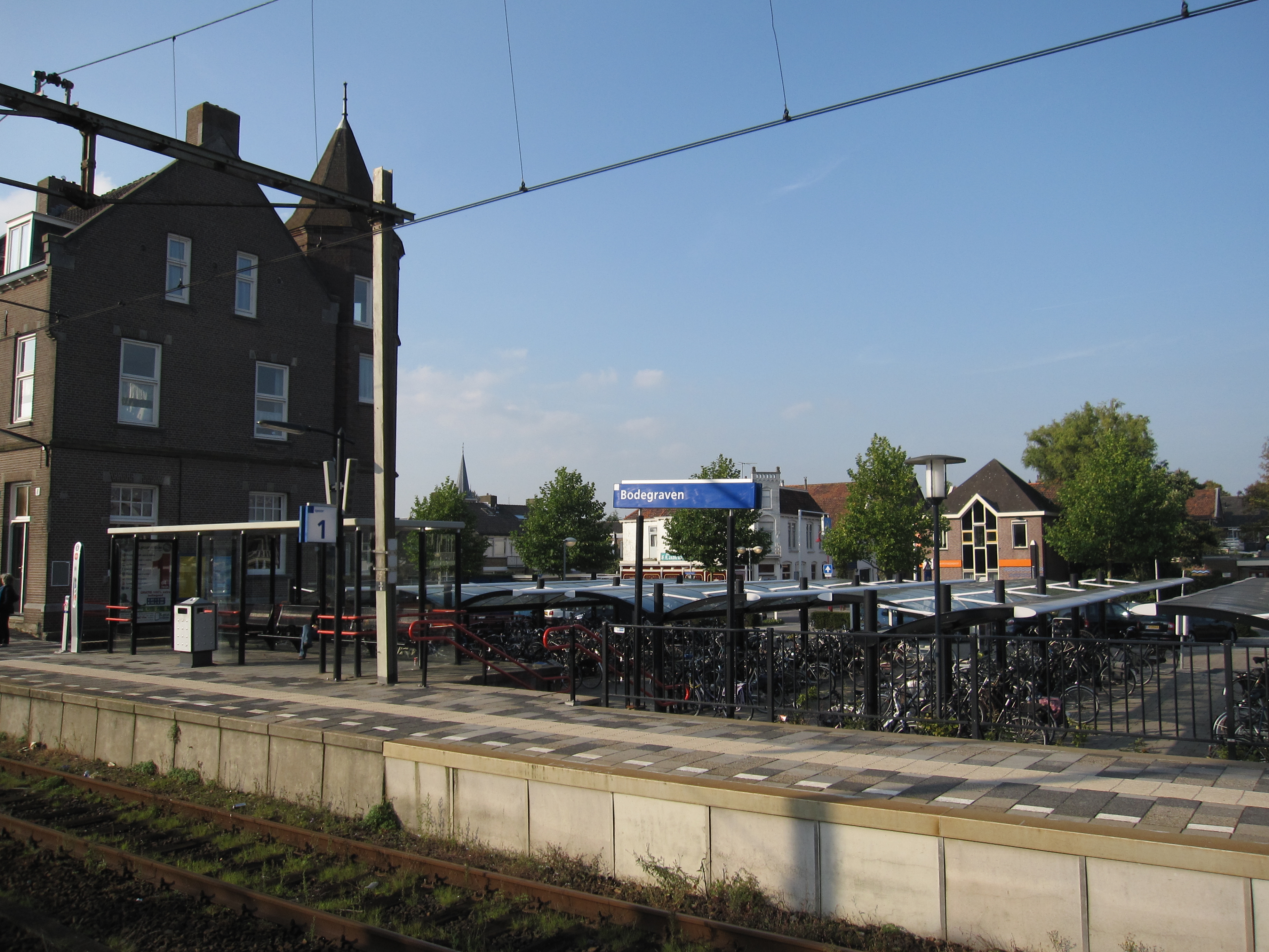 The train station in Bodegraven, the Netherlands.